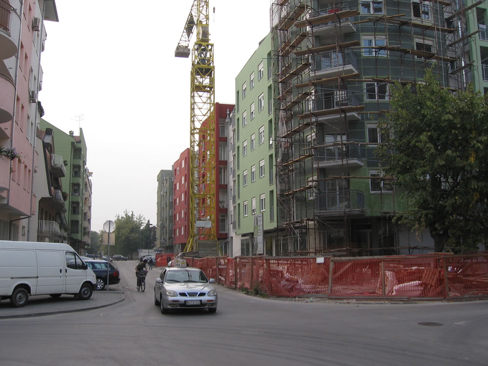 Puskin Street, Novi Sad, Serbia. October 2006